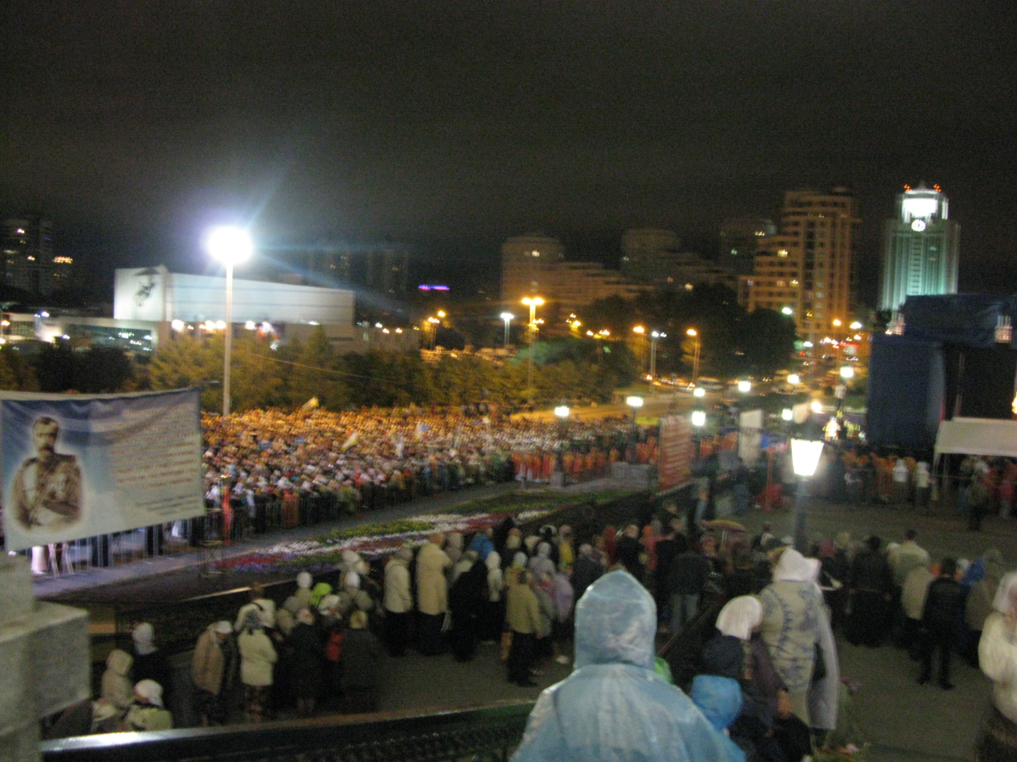 Ekaterinburg monarchical crucession 17 jul 2013